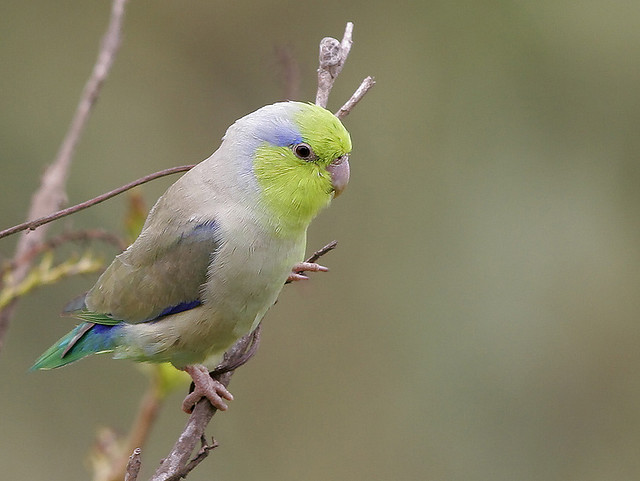 A male Pacific Parrotlet in Peru.